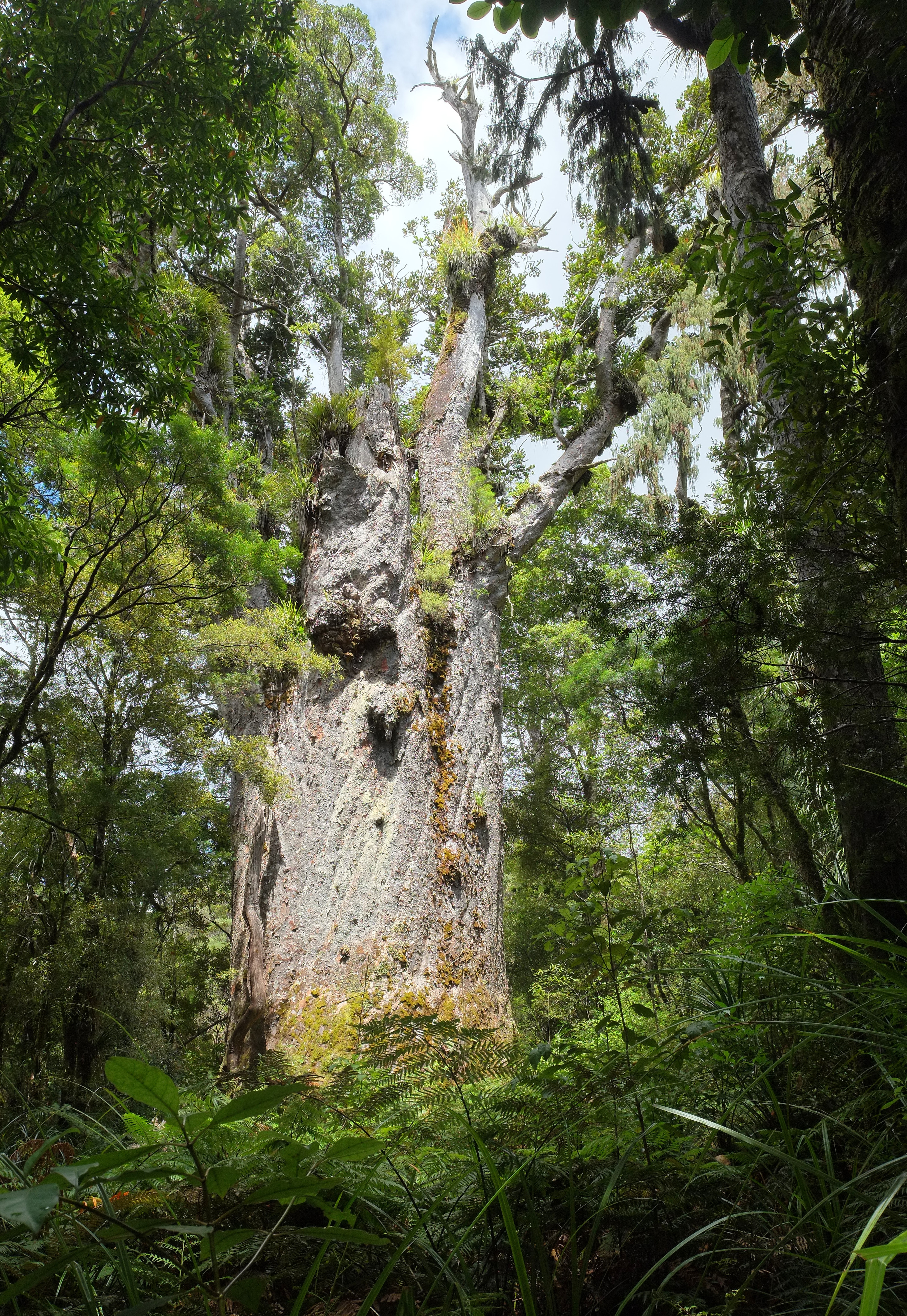 Te Matua Ngahere - 'Father of the Forest', the oldest kauri tree, estimated to be well over 1500 years old, with some estimates suggesting up to 3000 years. Its massive trunk has a diameter of 5 metres (16 ft) and a girth of over 16 metres (52 ft). The trunk is 10 metres (33 ft) tall and the overall height of the tree is 30 metres (98 ft).